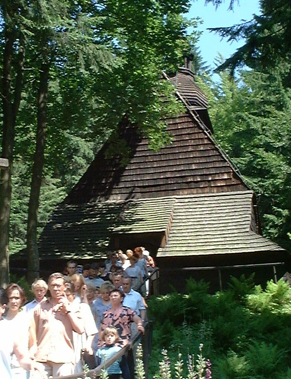 Poland, Kubalonka - wooden church.